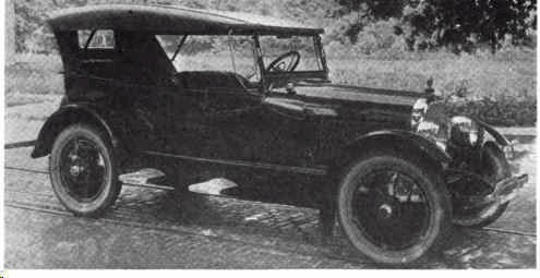 Courier Model D 5-pass Phaeton 1922